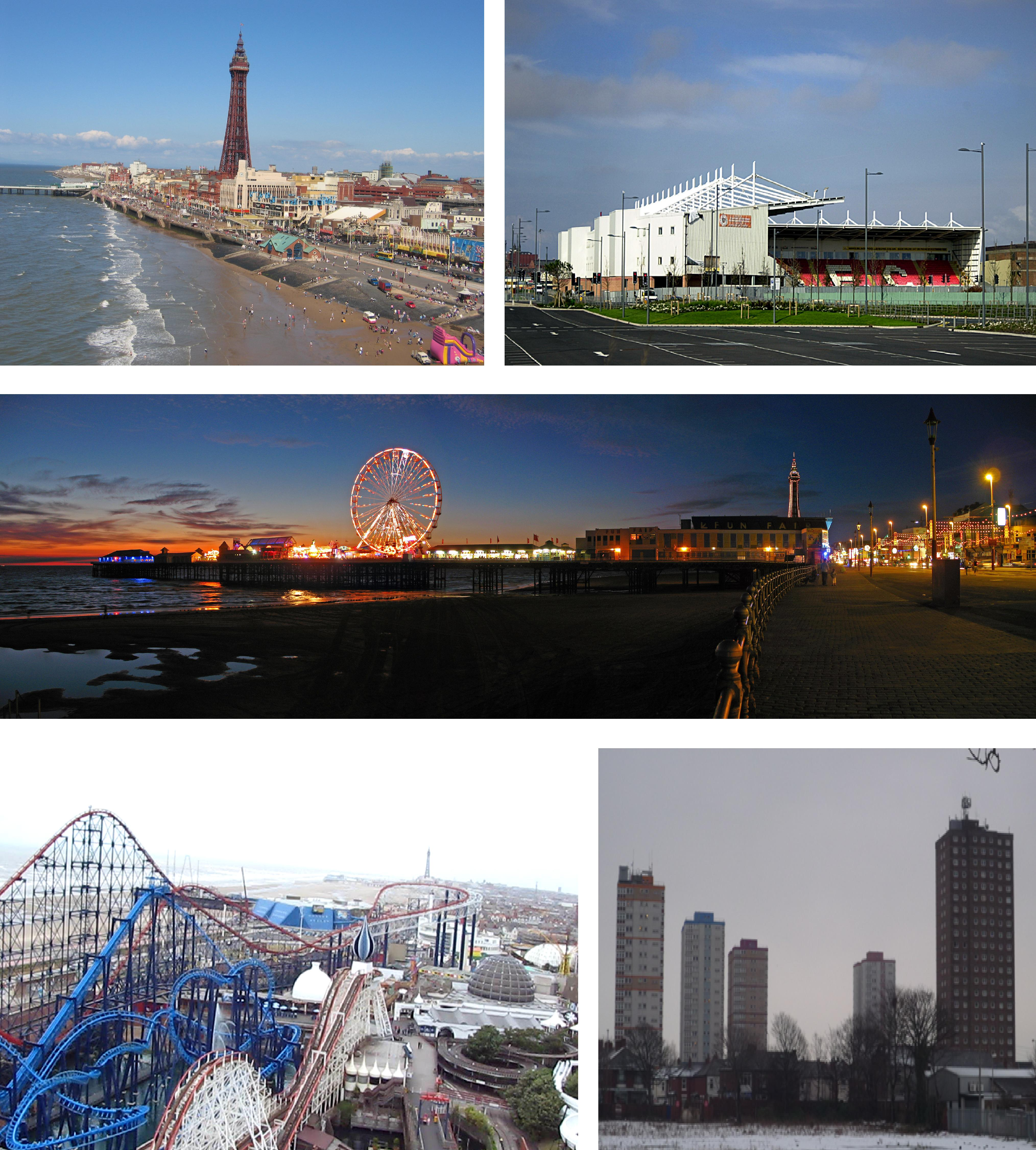 Montage of several images of Blackpool from Wikipedia Commons